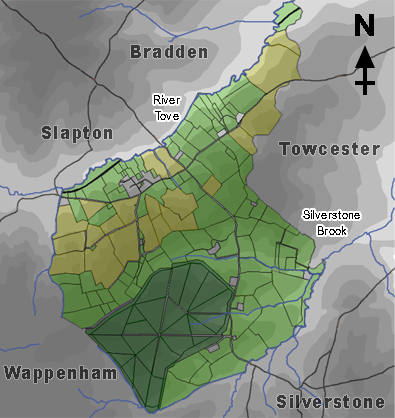 Abthorpe - Topography, Landuse, Rivers and Roads